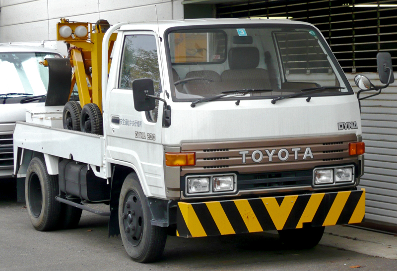 Toyota Dyna 200 of Central Training Academy for Safe Driving.